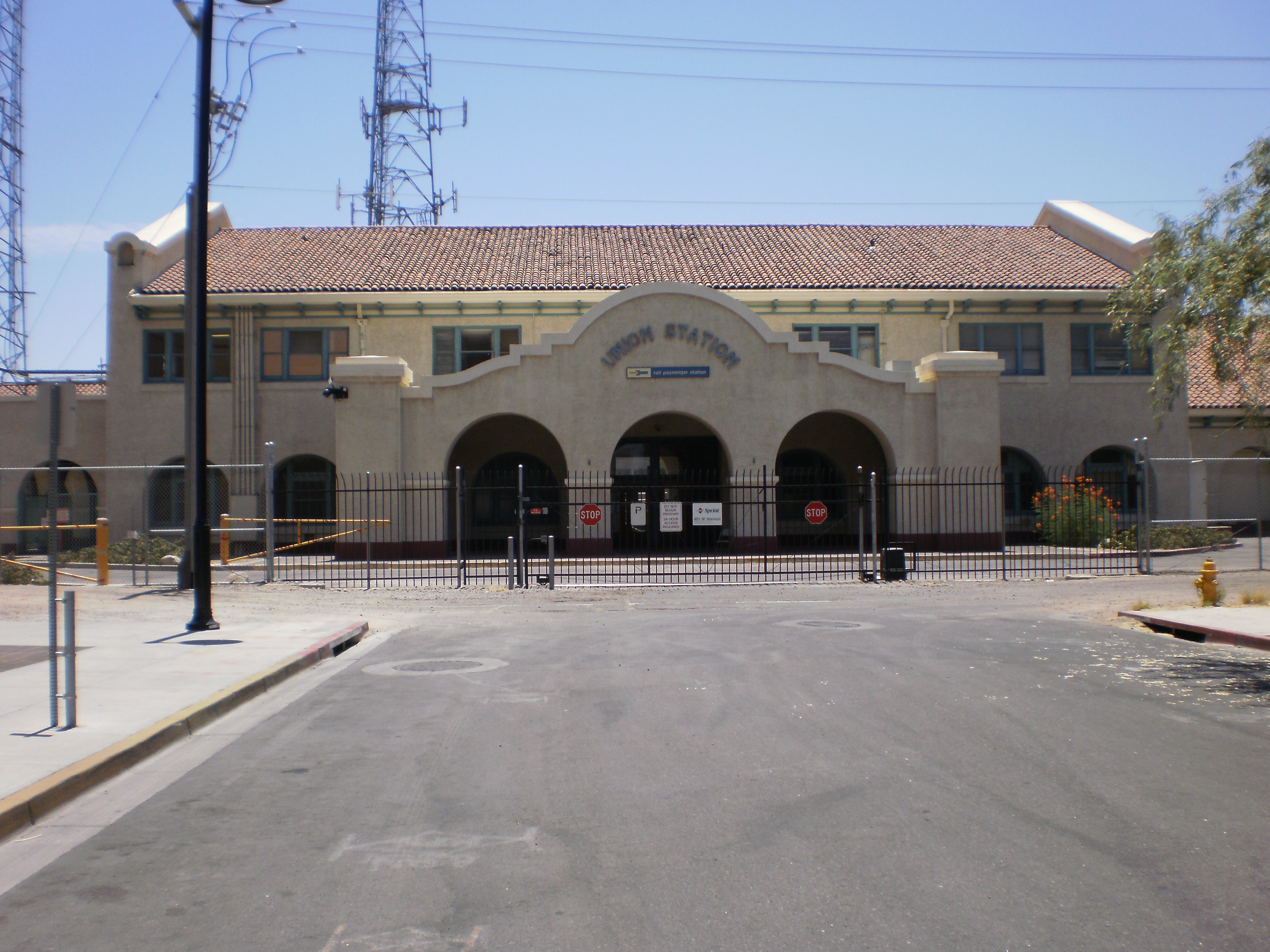 Front View of Phoenix Union Train Station